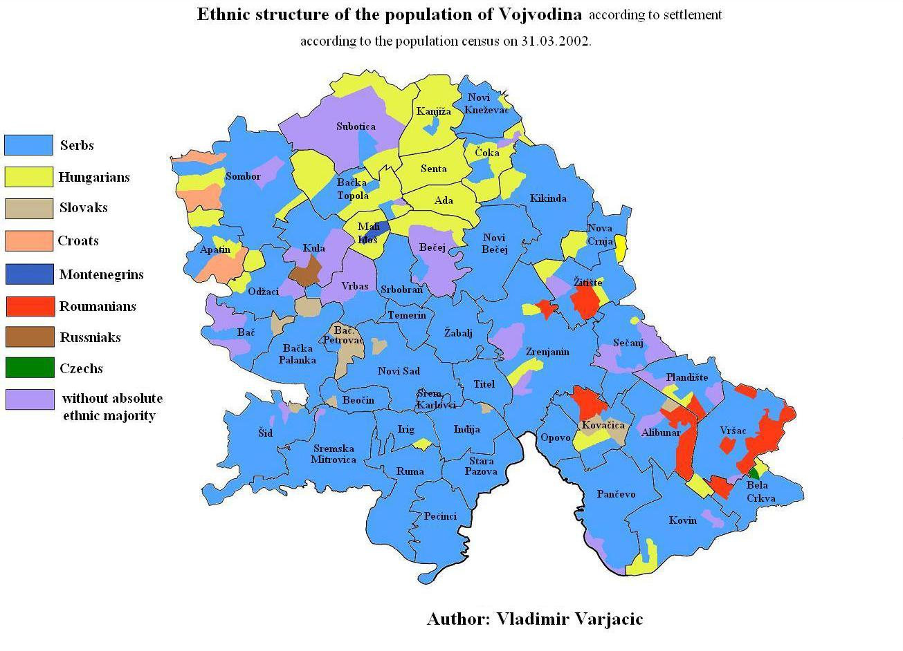 Ethnic map of Vojvodina by settlements in 2002. Category:Ethnic maps